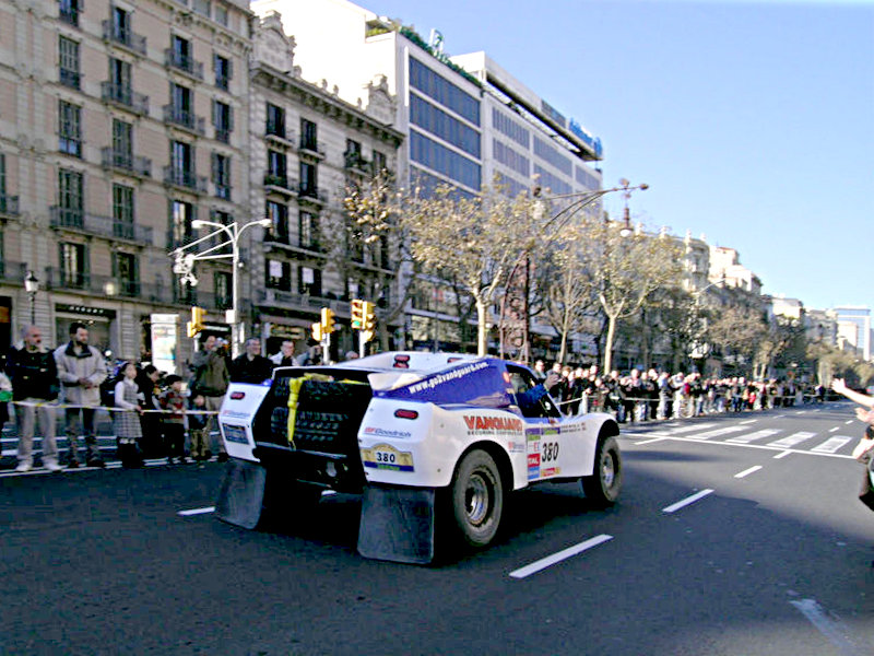 Ronn Bailey, Schlesser-Buggy, Rallye Paris-Dakar, 2005. Light edit.